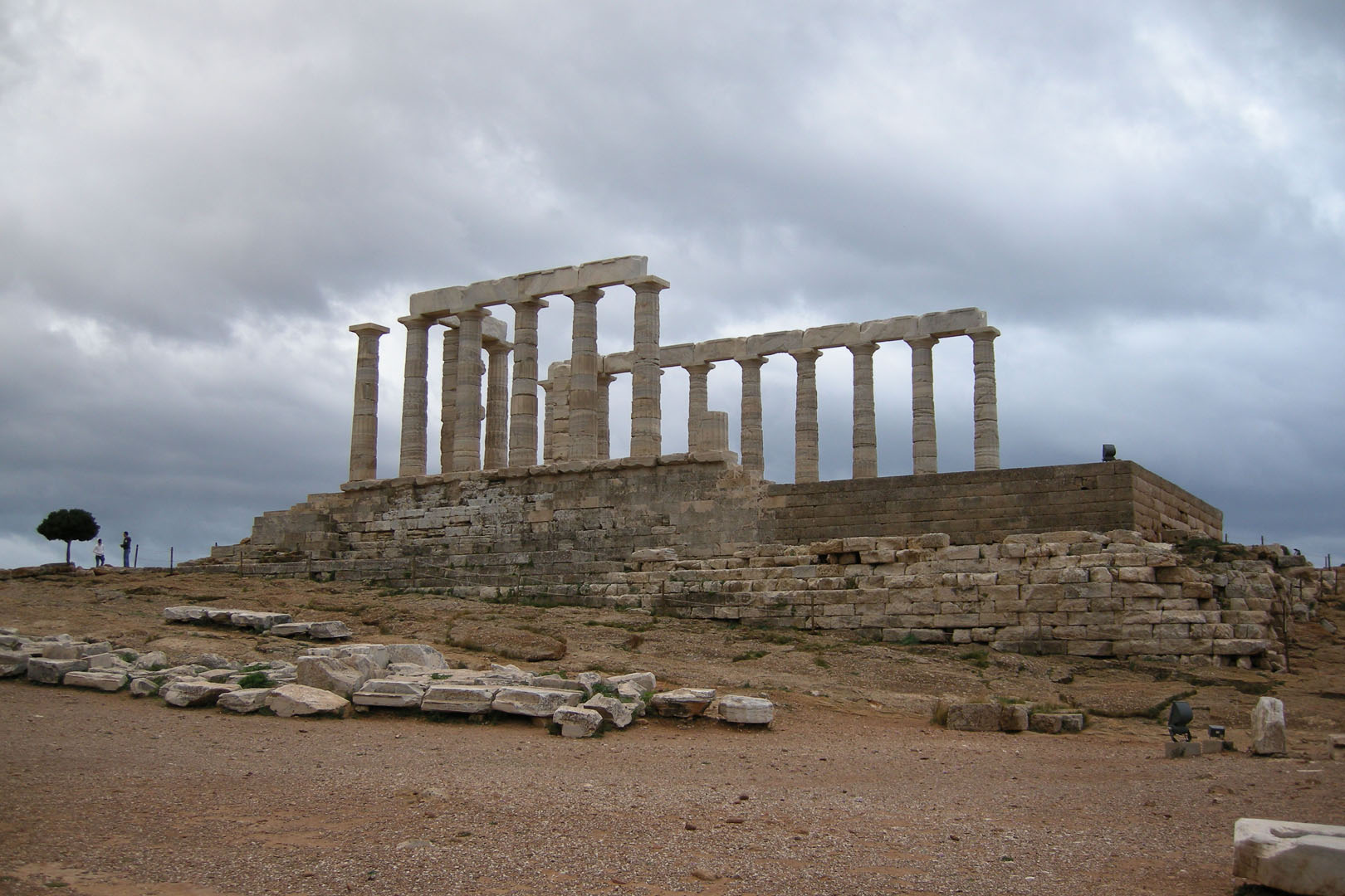 Temple of Poseidon at Cape Sounion, Greece